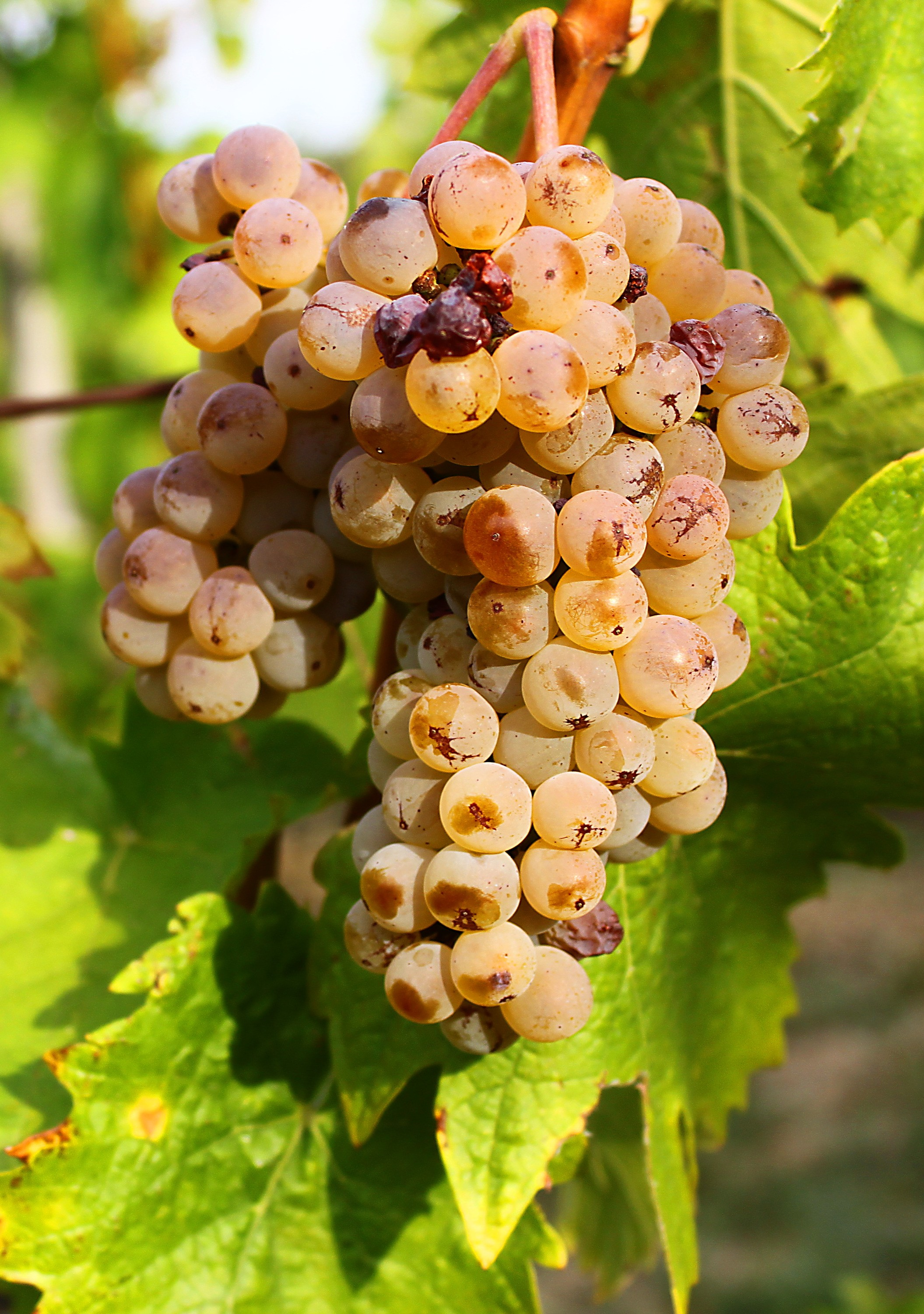 Welschriesling grape cluster